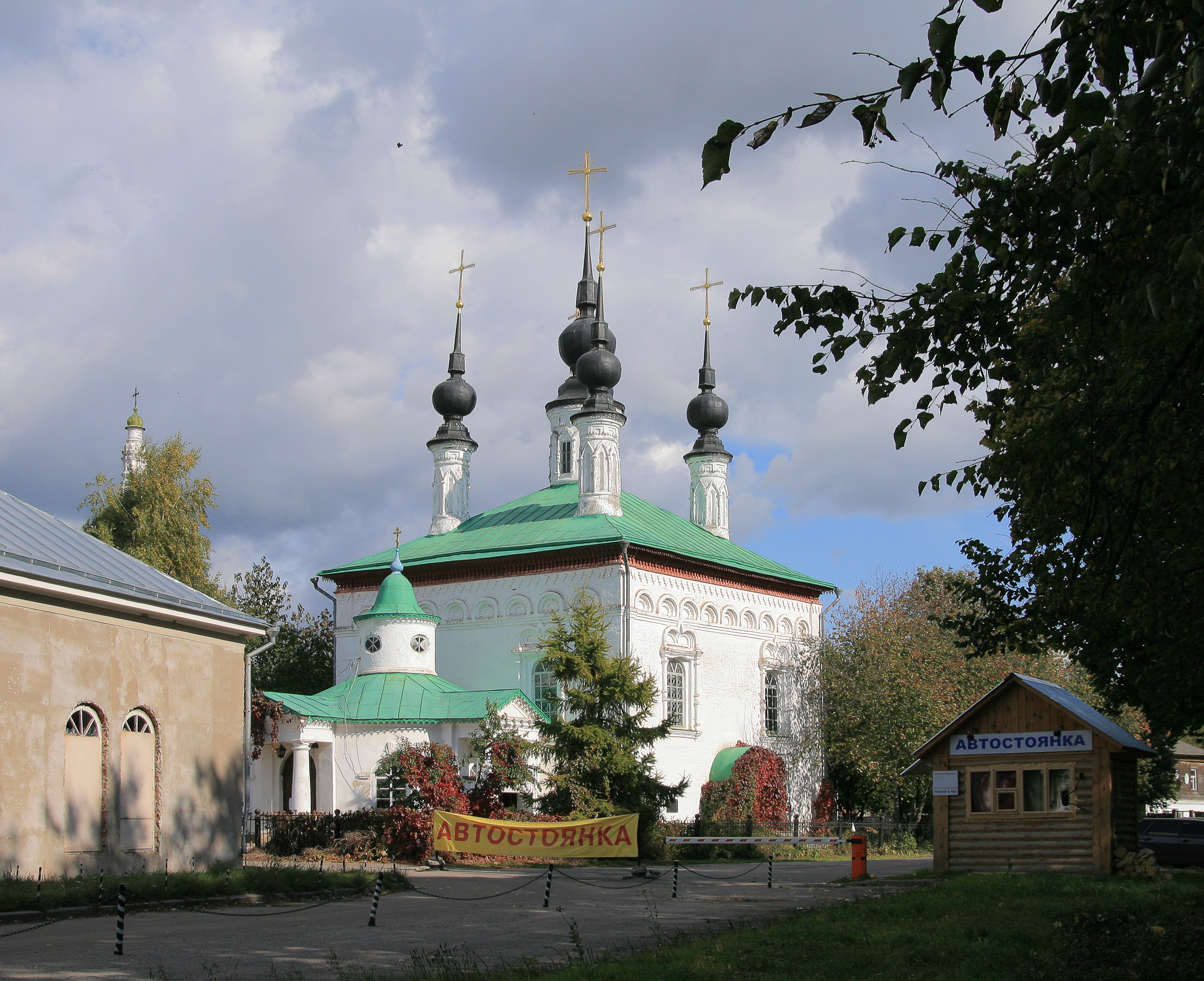 Saints Constantine and Helena church, Suzdal, 1707